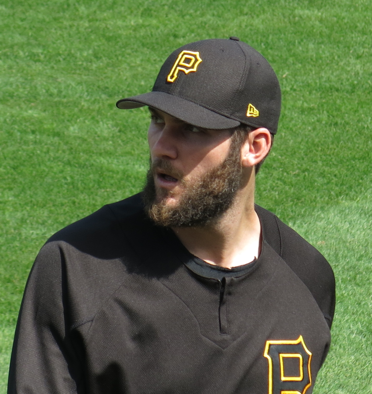 Trevor Williams of the Pittsburgh Pirates, April 15, 2017.